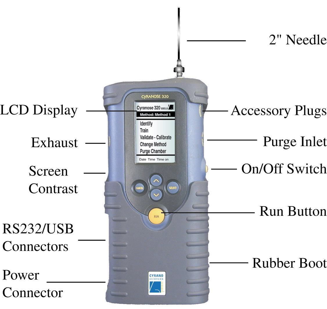 The Cyranose 320 with text labelling of all the functional parts of the electronic nose